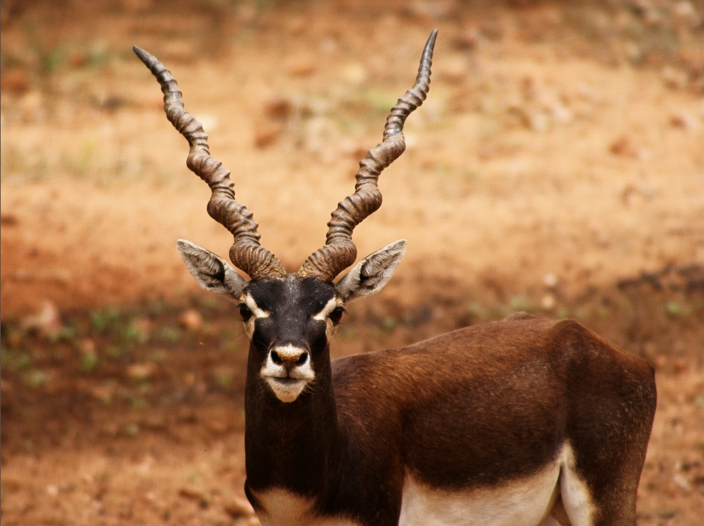 Location: Mahavir Harini Vanasthali National Park, Hyderabad Equipment: Sony A200 + Tamron 28-300mm Explored #449 on 7-Jul-2009